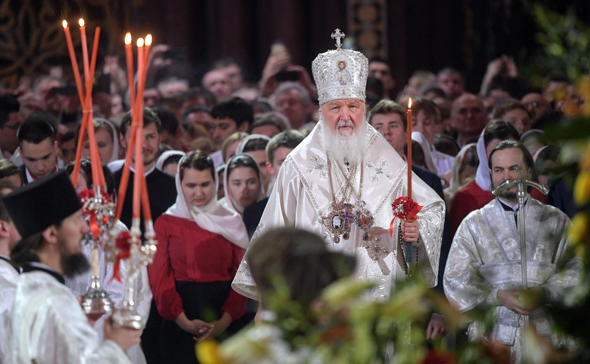 Easter service in the Cathedral of Christ the Saviour in Moscow, Russia, 2017-04-16